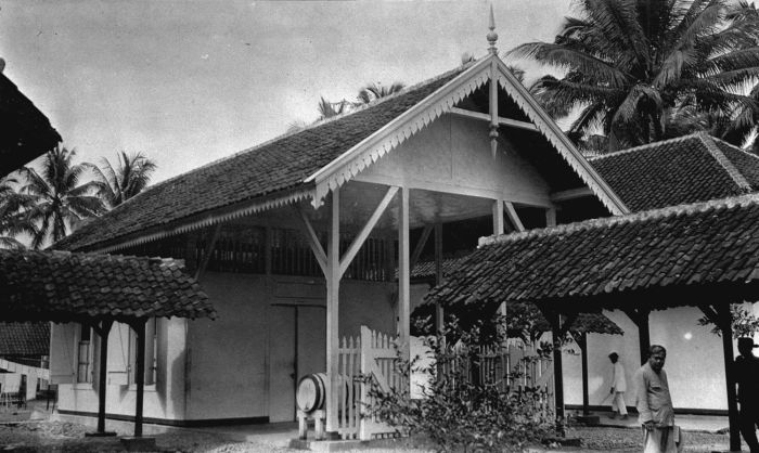 The operating building of the hospital in Tasikmalaya